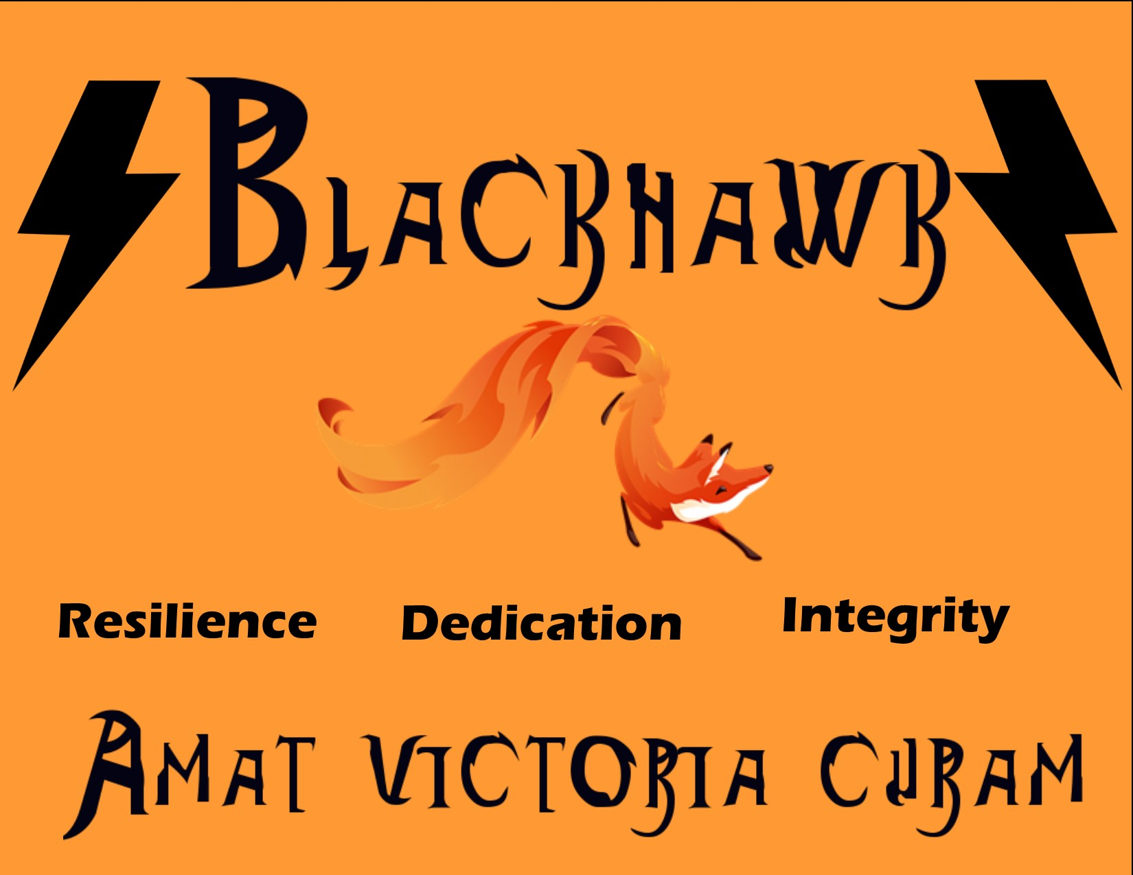 House